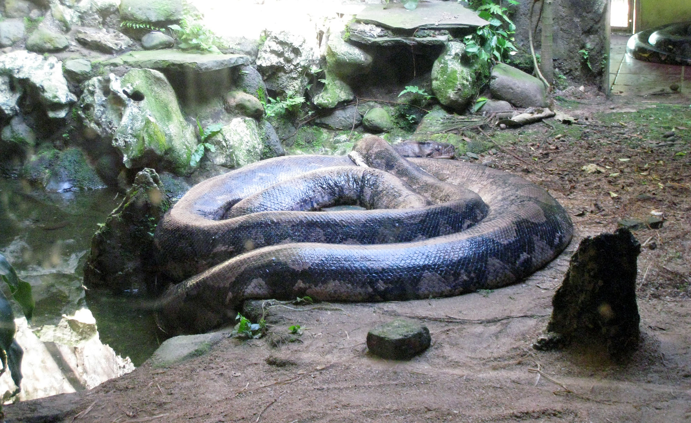 Large Python reticulatus in Ragunan Zoo Terrarium, South Jakarta, Indonesia.